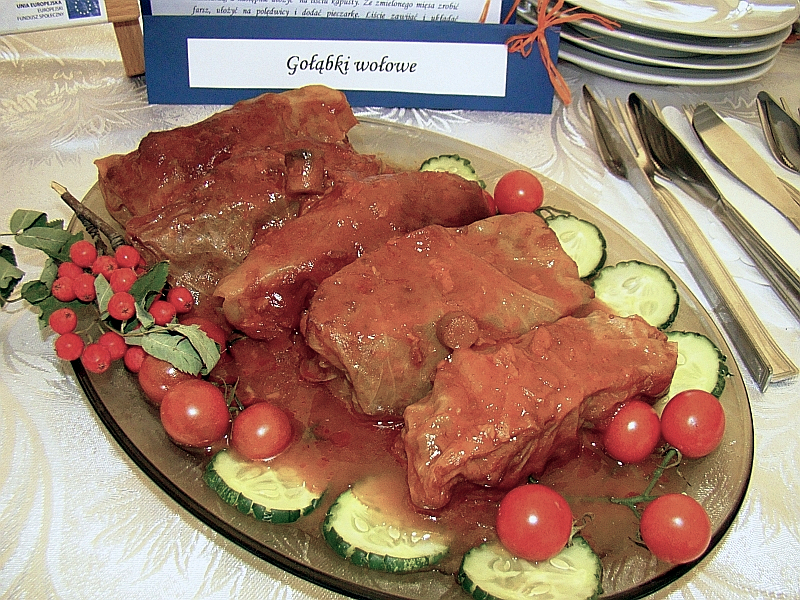 Cuisine of Subcarpathia